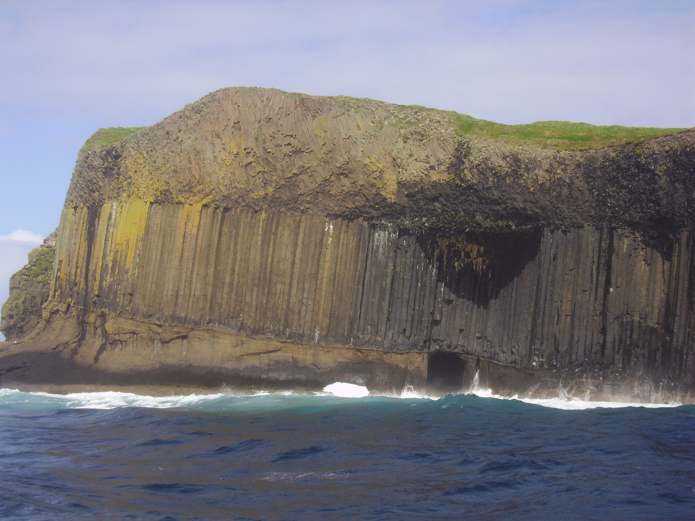 Atlantic swell crashing around the Boat Cave on the Isle of Staffa, Scotland.